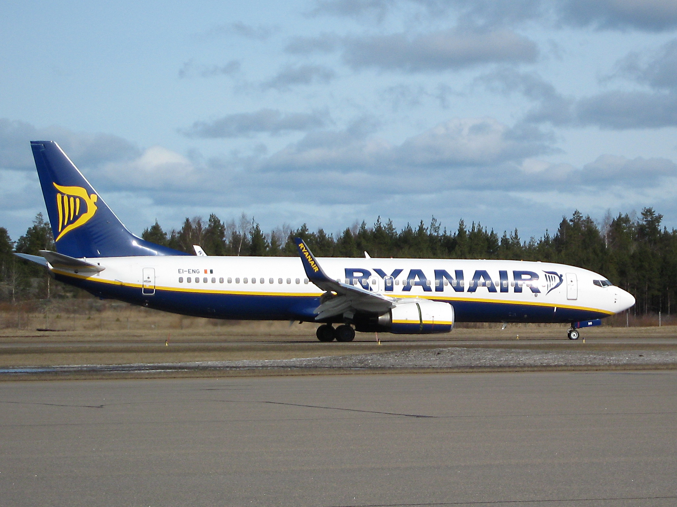 Ryanair first flight ever to Turku was flown with EI-ENG from London-Stansted